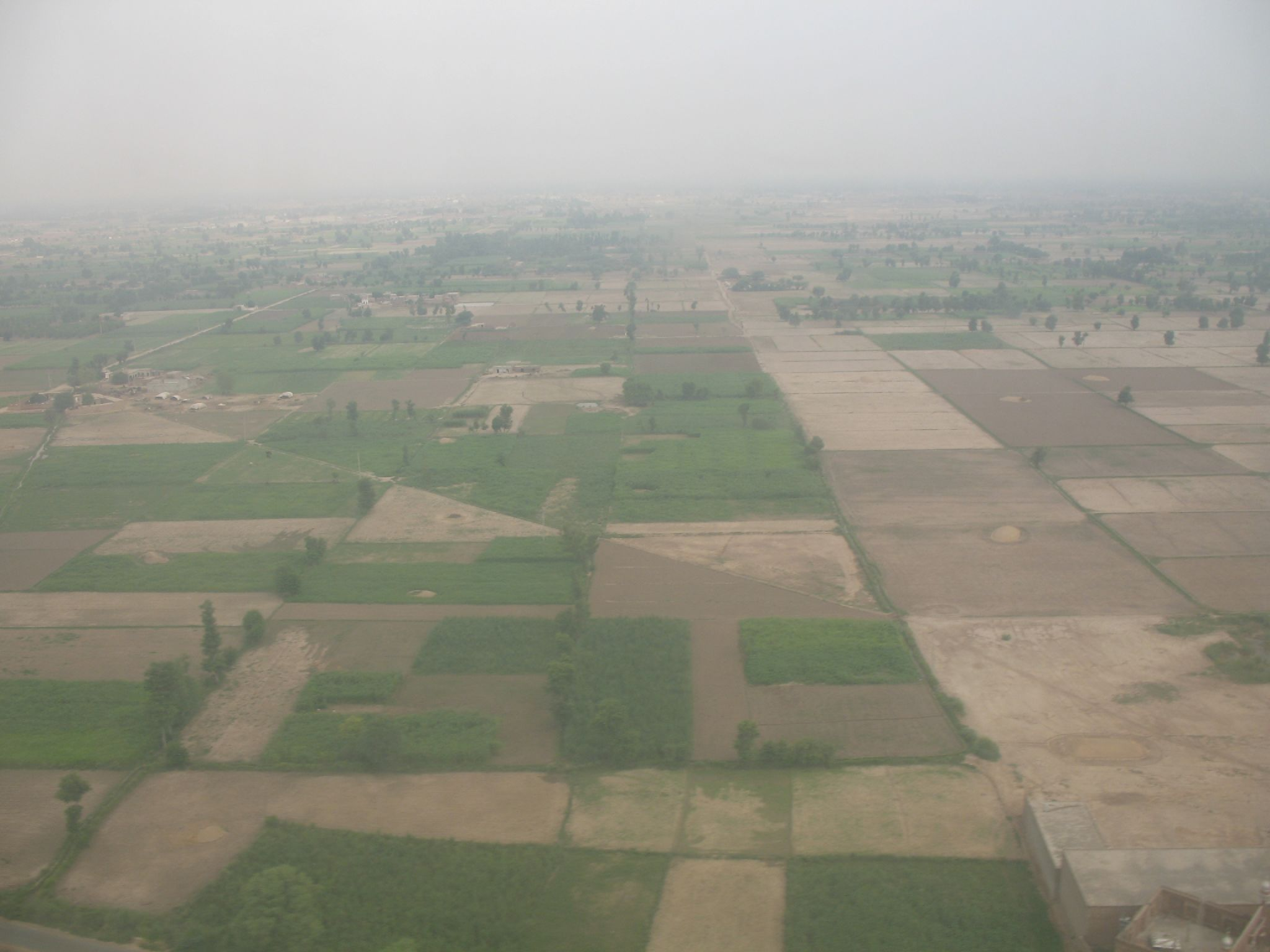 Fields whilst landing into LYP, Pakistan